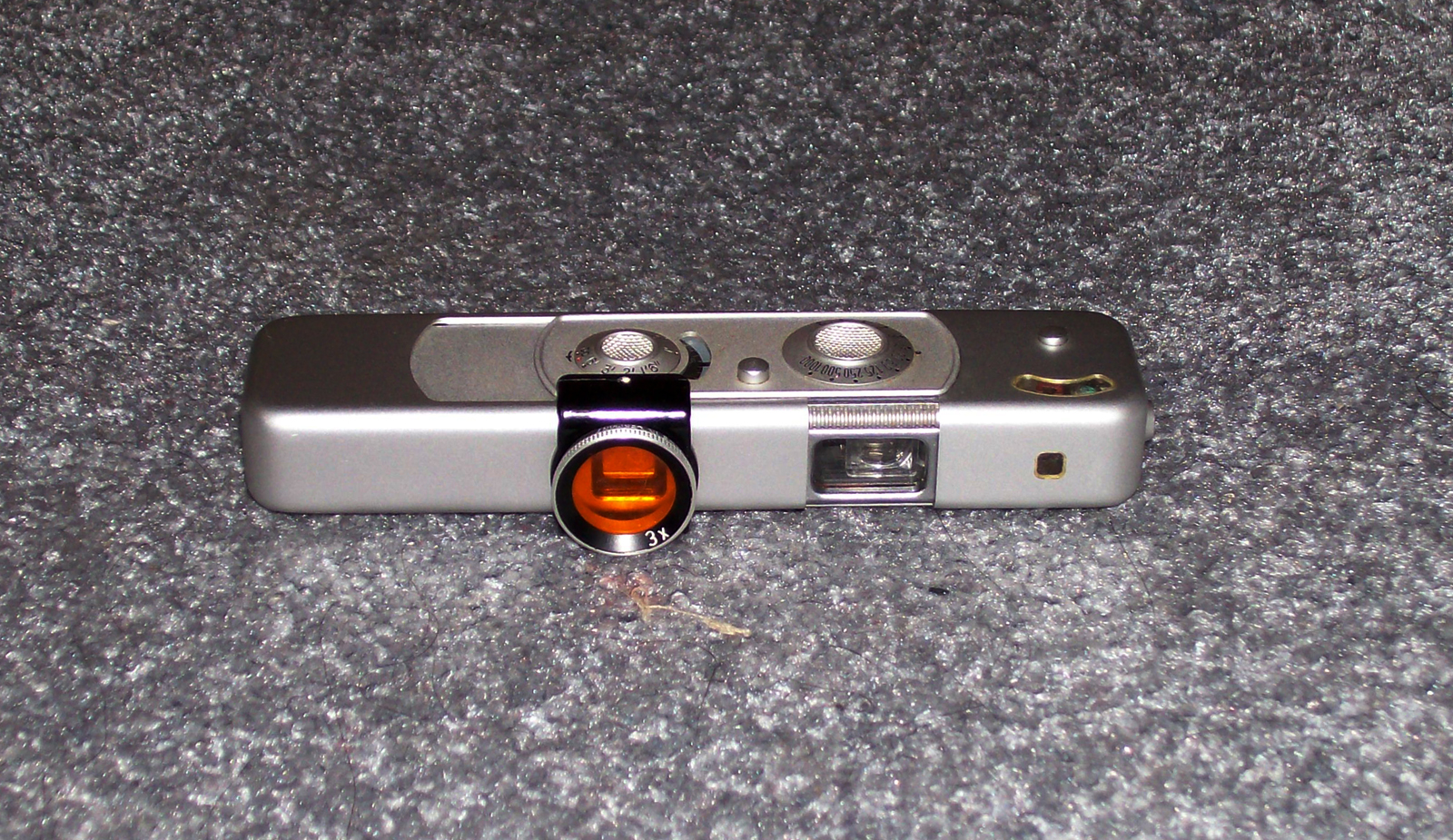 Minox BL w 3x orange filter